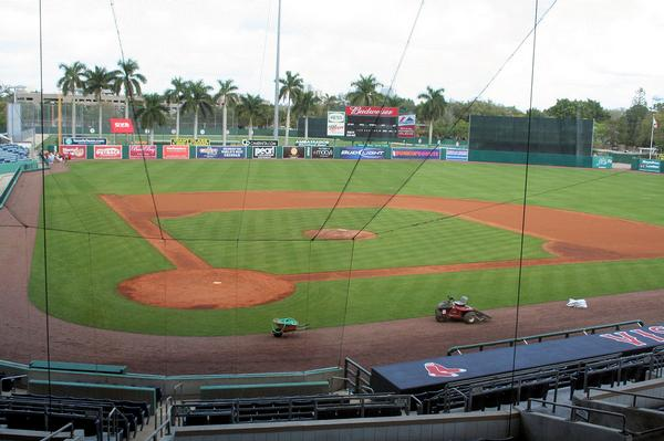 City of Palms Park from the press box.